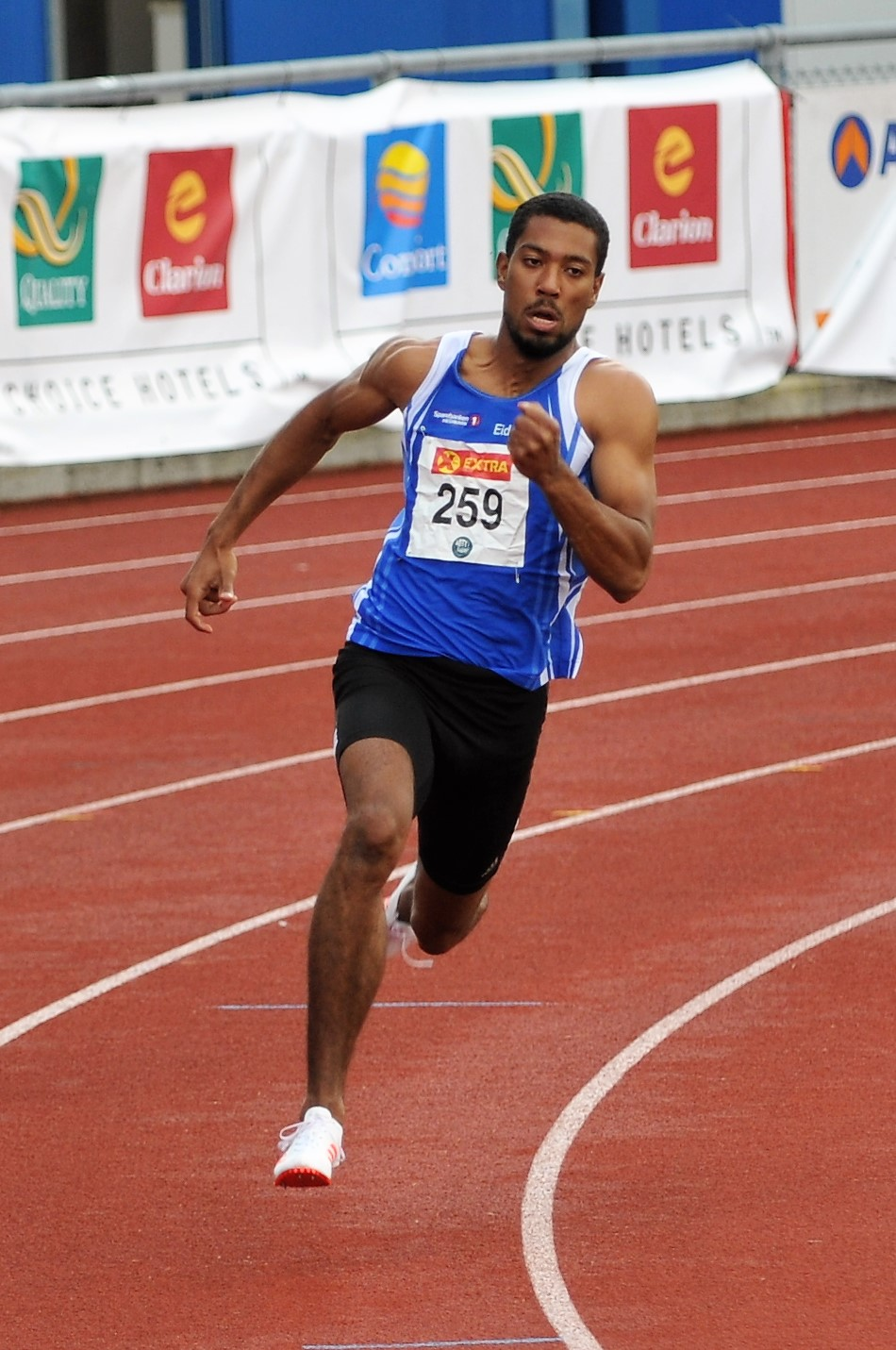 Jonathan Quarcoo on his way to a gold in 200 m at the Norwegian Athletics Championships in Sandnes 2017.